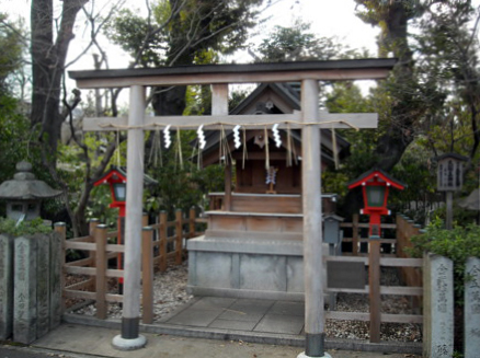 Ōkuninushi-jinja, a branch shrine in Kurumazaki-jinja, Kyoto. See the map. Nikon Coolpix L18